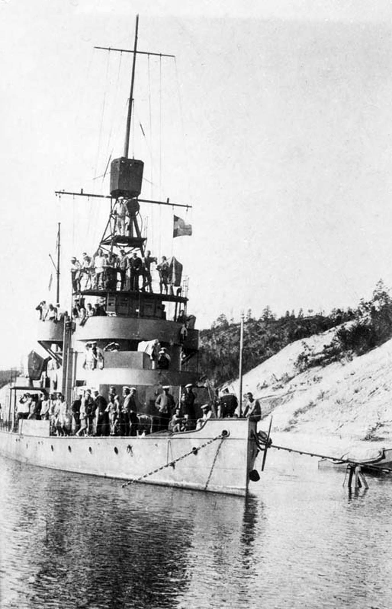 Soviet gunboat Proletarii.